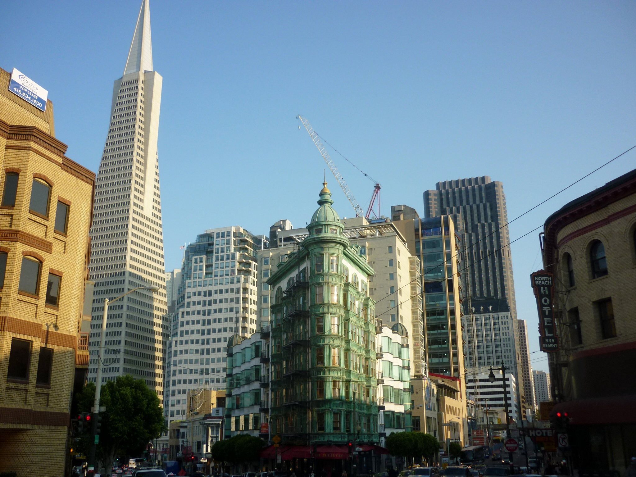 Financial District, San Francisco